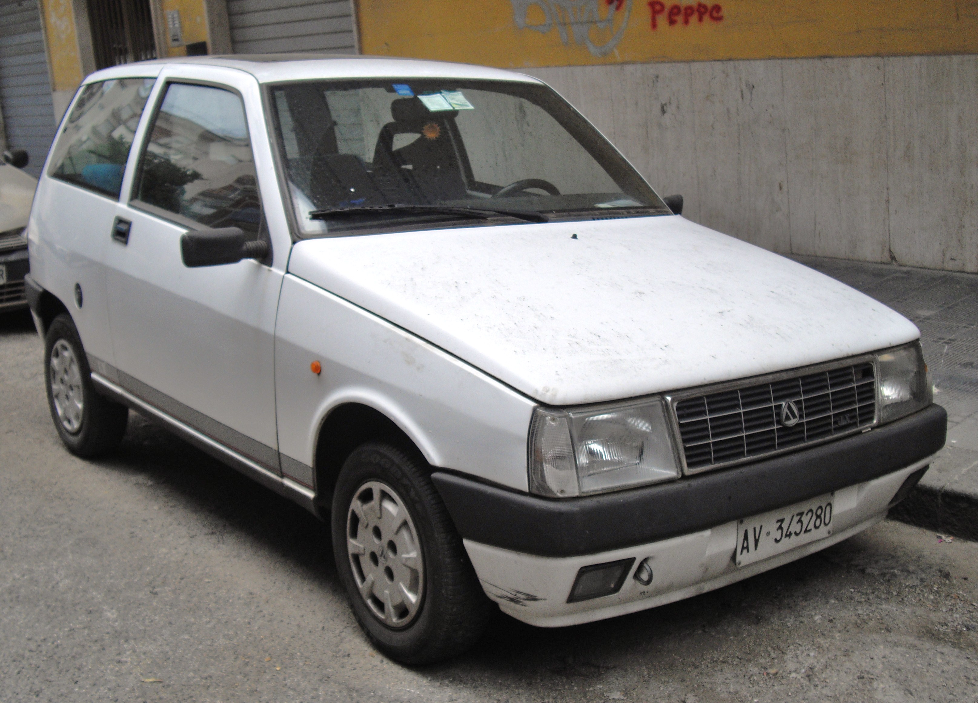 Y10 LX